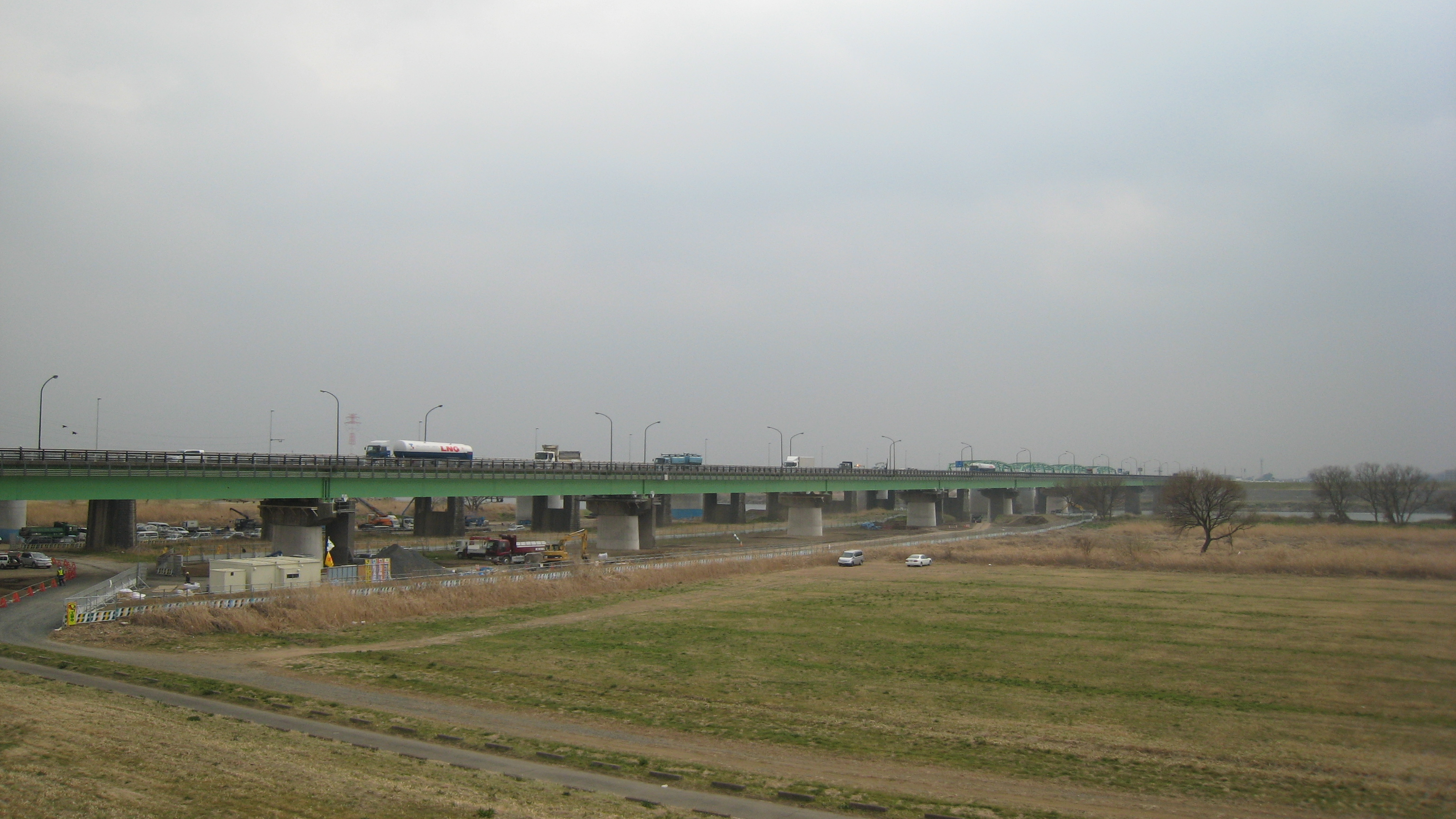 Tonegawa bashi(bridge) in Koga, Ibaraki Prefecture,Japan. taken at 17,March,2008 by Taketarou